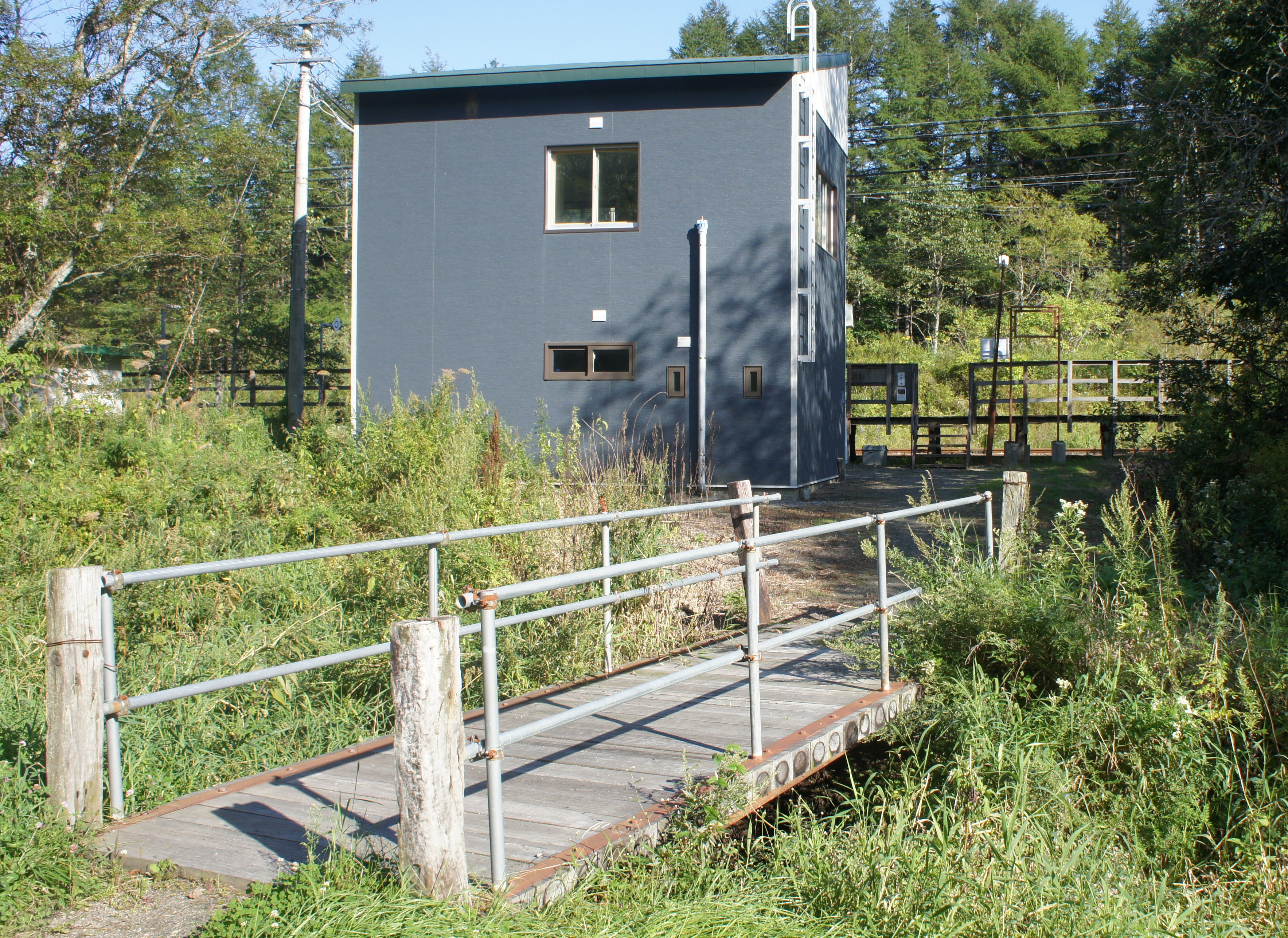 JR Nemuro-Main-Line Furuse Station Platform 1 Entrance